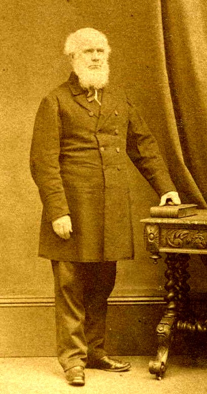 William Howitt,18 December 1792 – 3 March 1879) author from Heanor Derbyshire